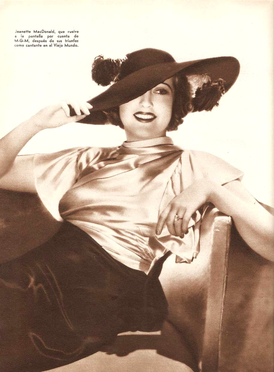 Publicity photo of Jeanette MacDonald for Argentinean Magazine. (Printed in USA)